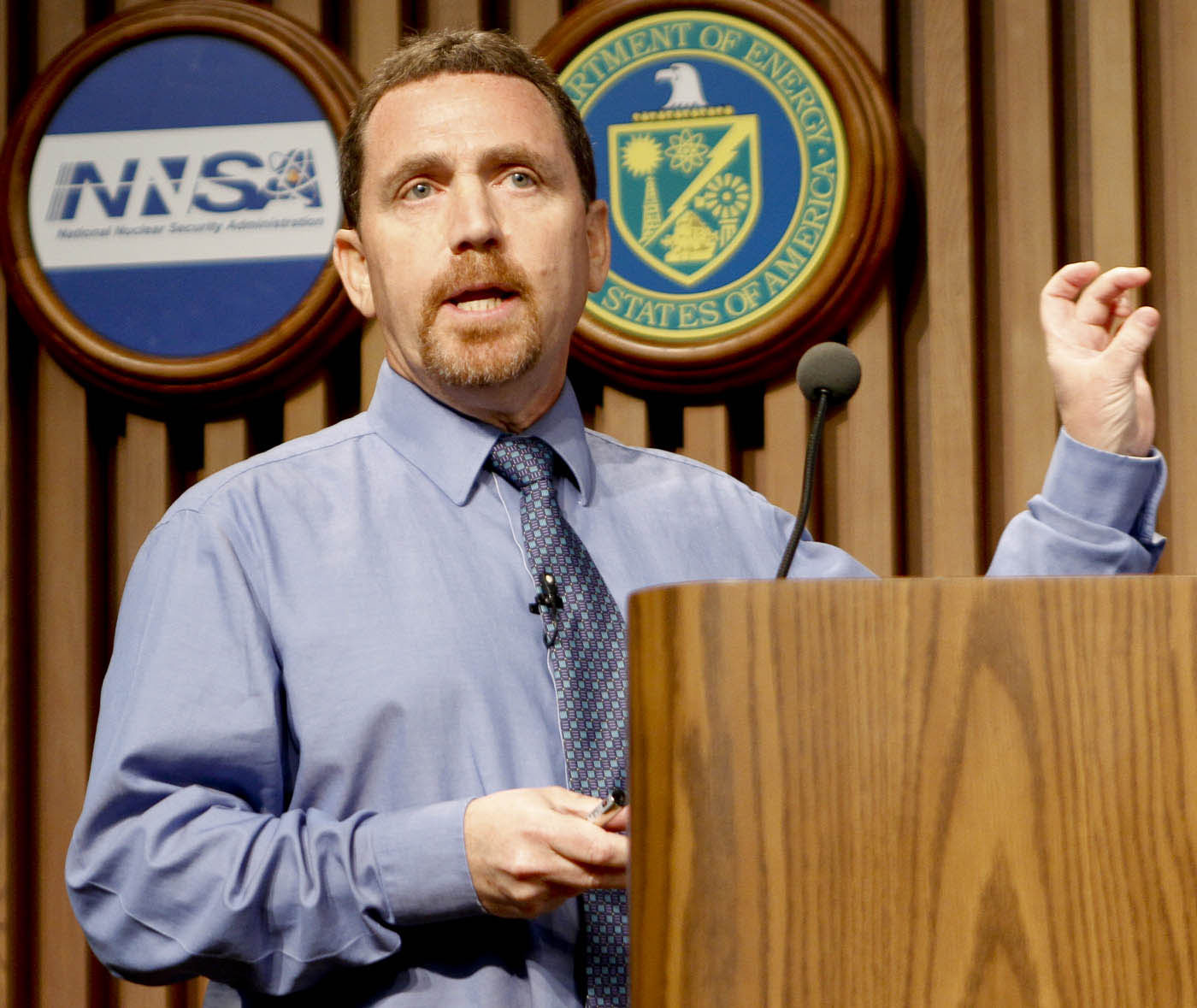 Benjamin D. Santer